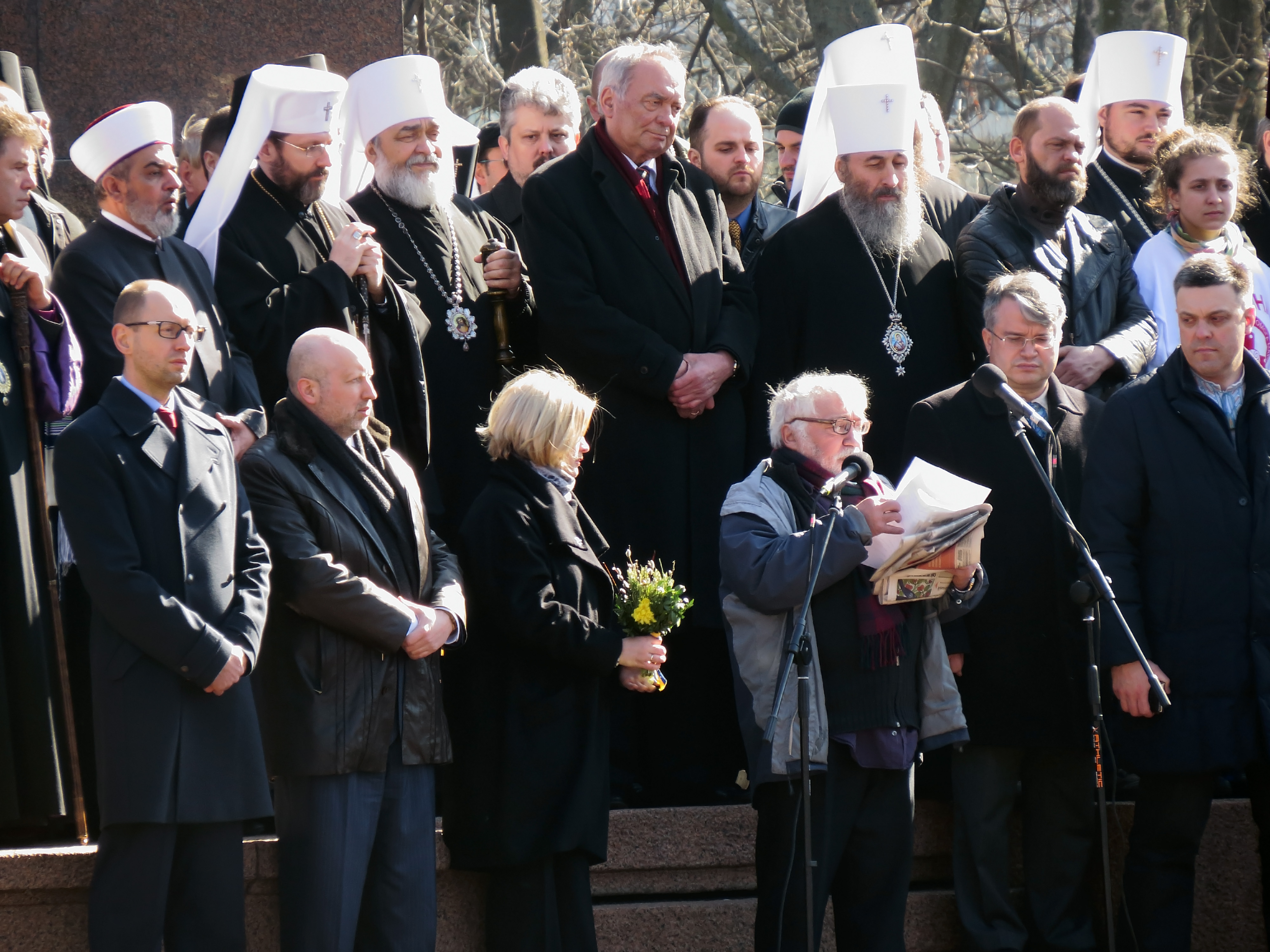 Kiev, Shevchenko park. Meeting on celebrations for the 200th anniversary of the birth of Taras Shevchenko. Art historian V. Skuratovsky at microphone.